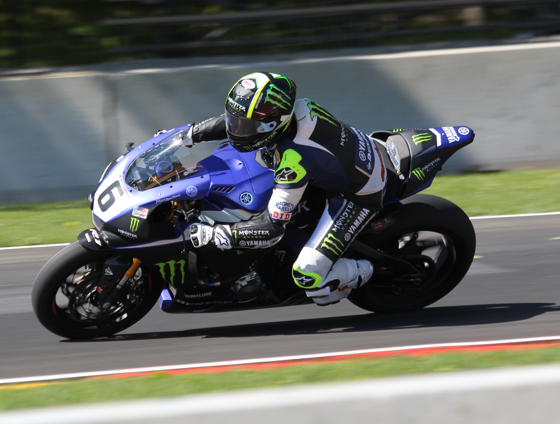 American AMA Superbike rider Cameron Beaubier after winning at Road America.